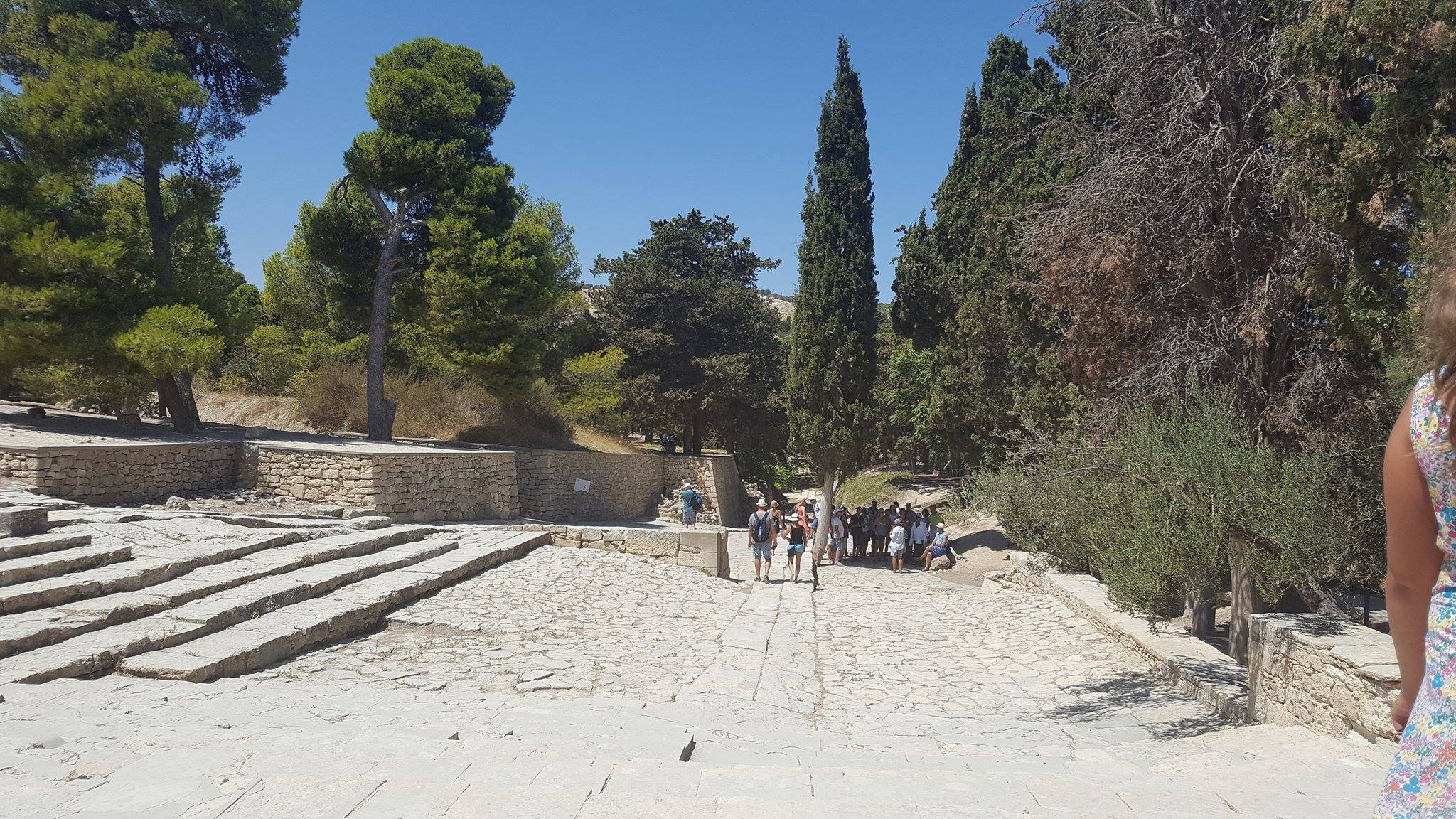 Reception courtyard at the palace of Knossos. The royal family would receive guests here. Members of the court would stand on the tiered platforms visible in the background.